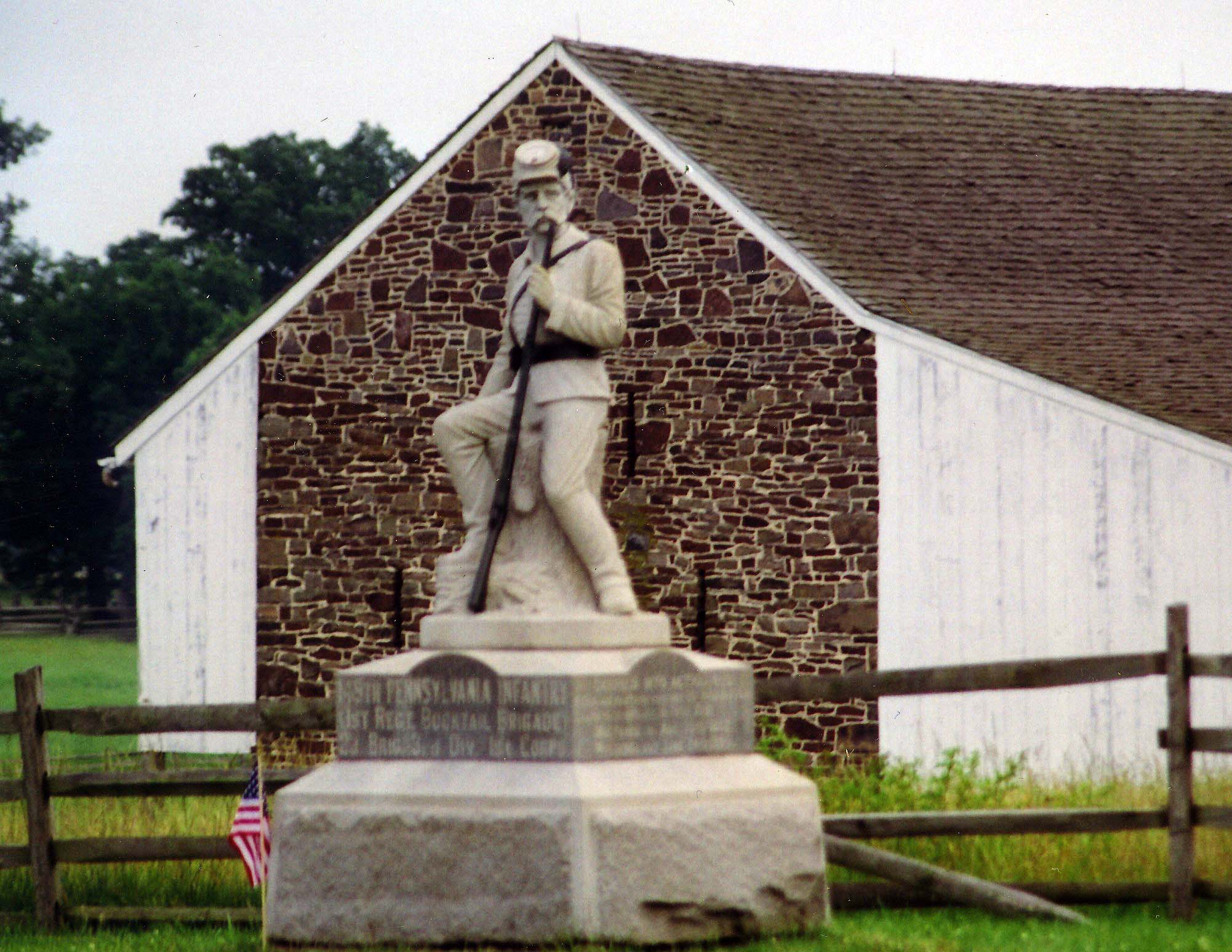 149th PA Infantry monument, Gettysburg Battlefield